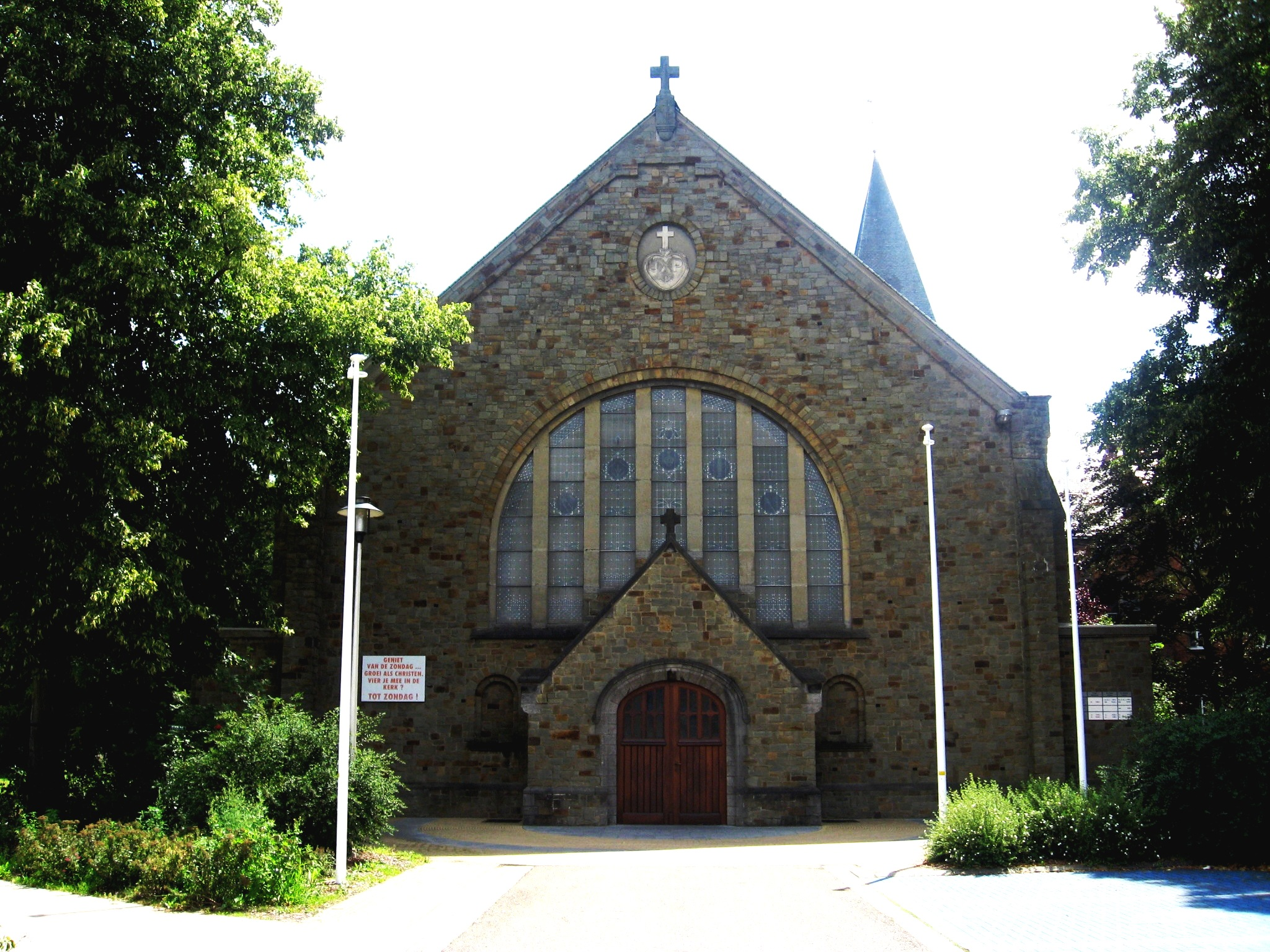 Church of the Sacred Heart in Diepenbeek (Rooierheide), Limburg, Belgium